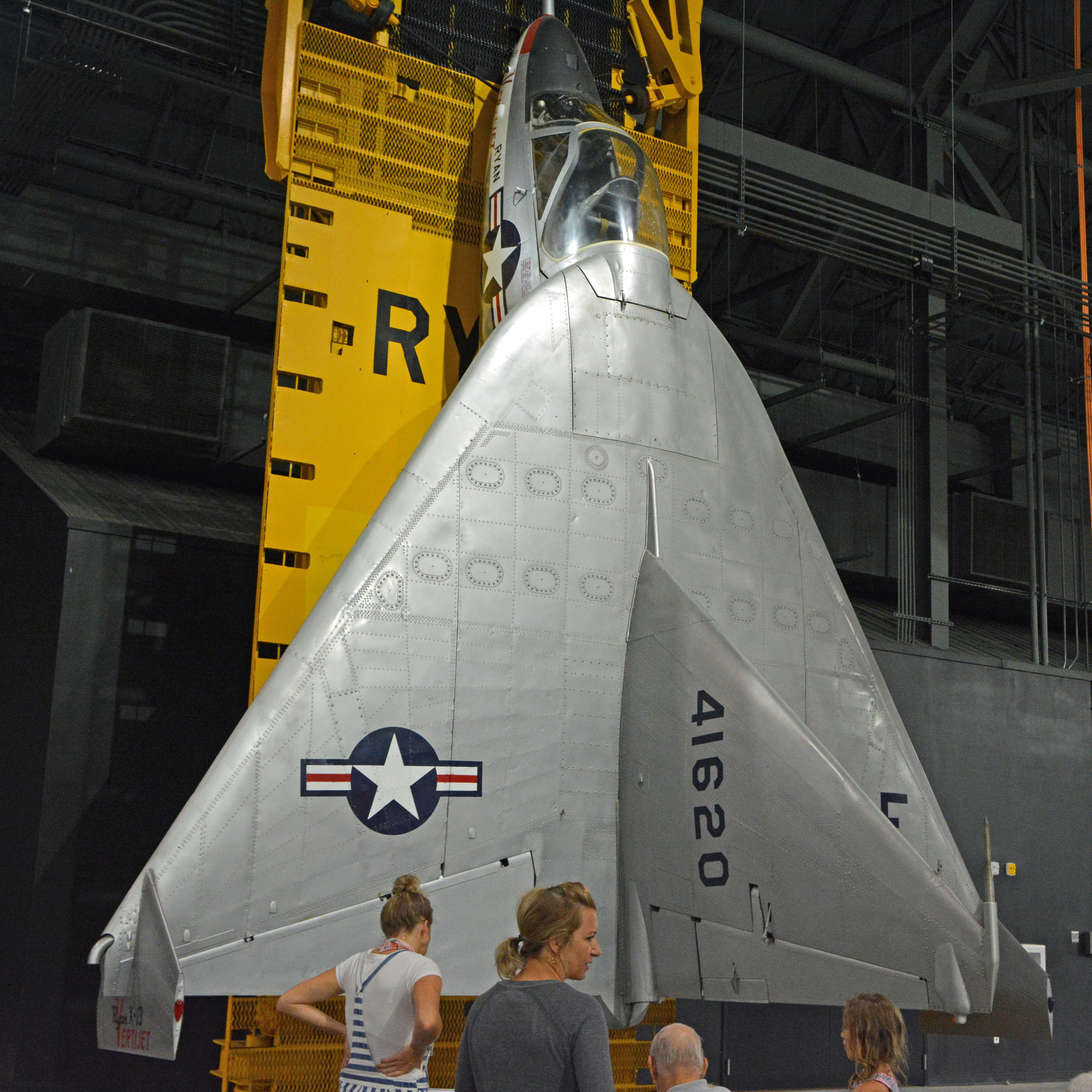 National Museum of the United States Air Force